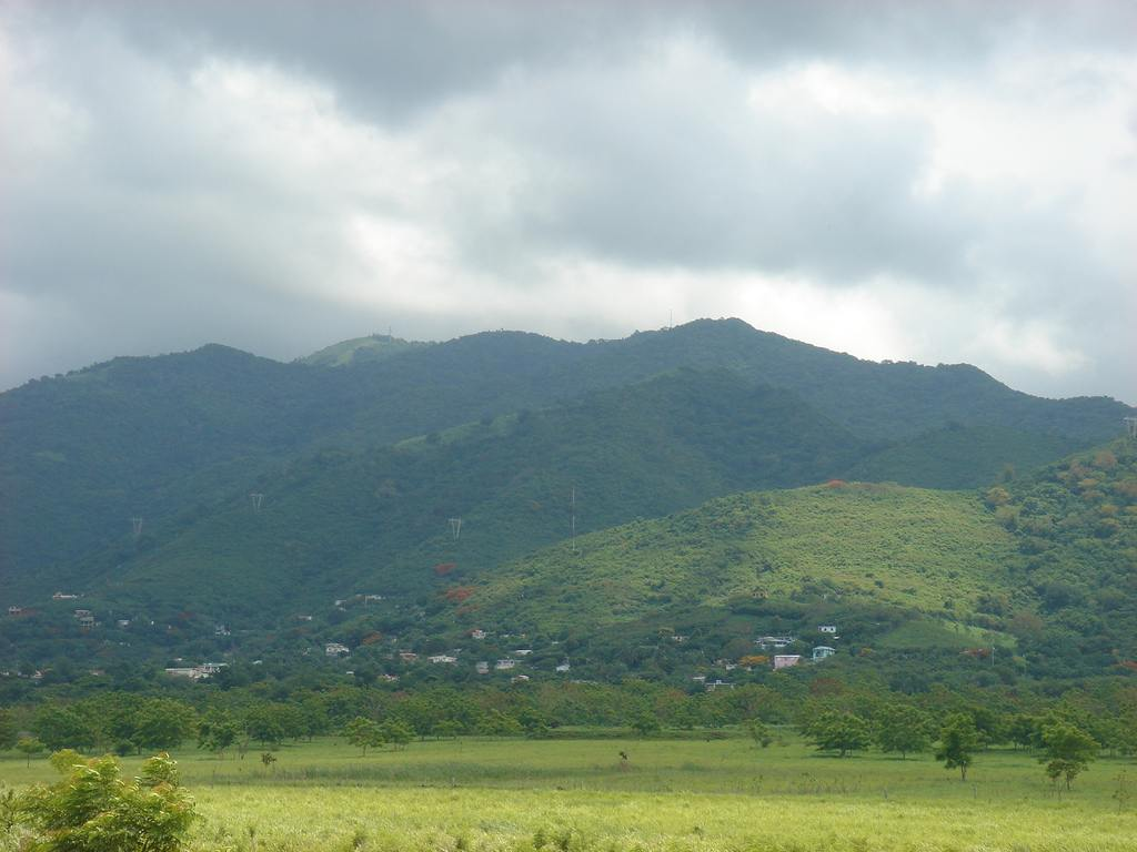 6/29/2006: View from Guayama, PR Looking towards the "Cordillera Central" and Bosque de Carite.